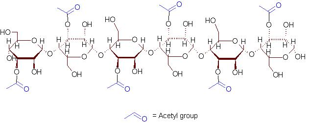 Structure of acemannan